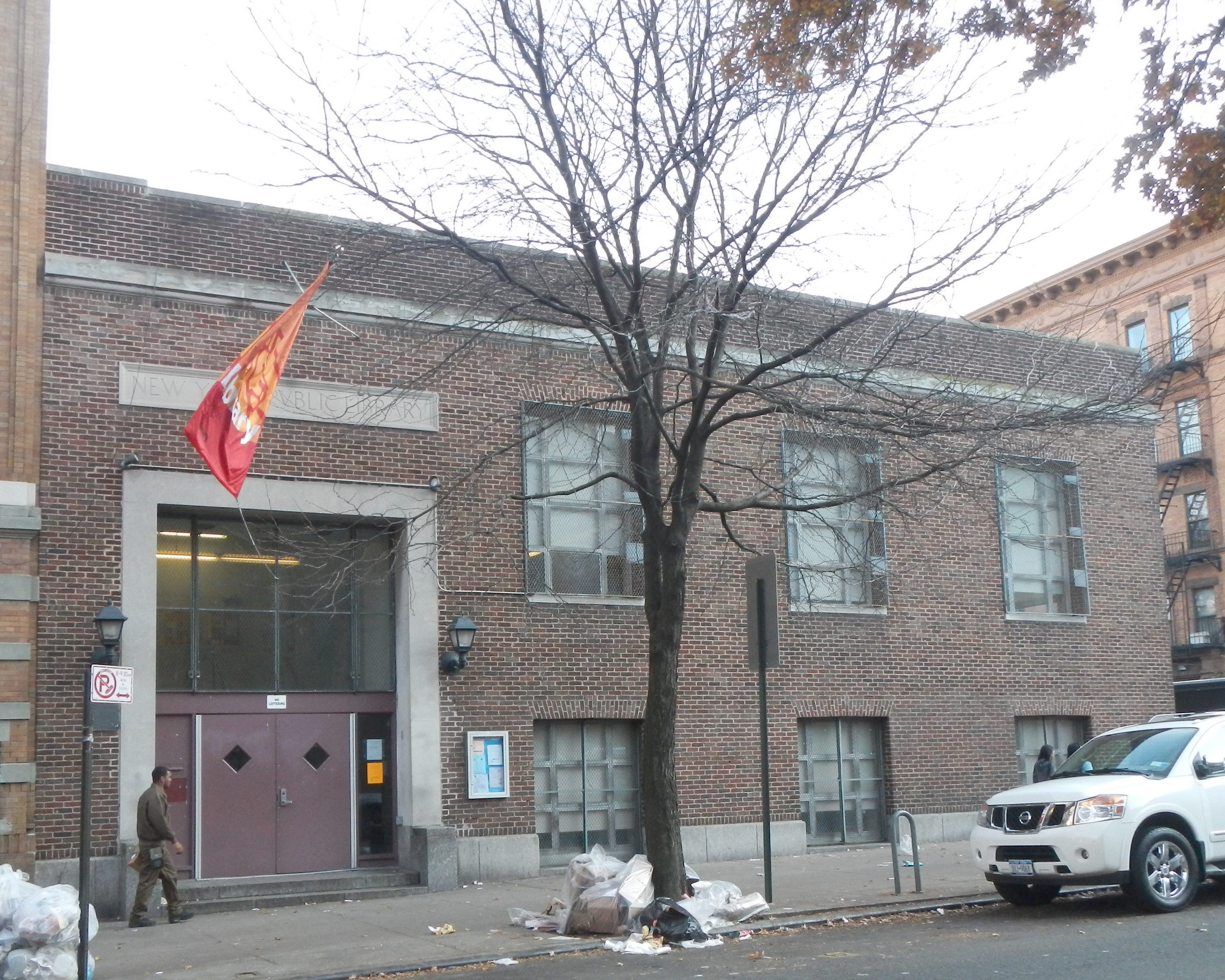 Looking southeast across Morris Avenue at Melrose Branch library on a sunny early afternoon.